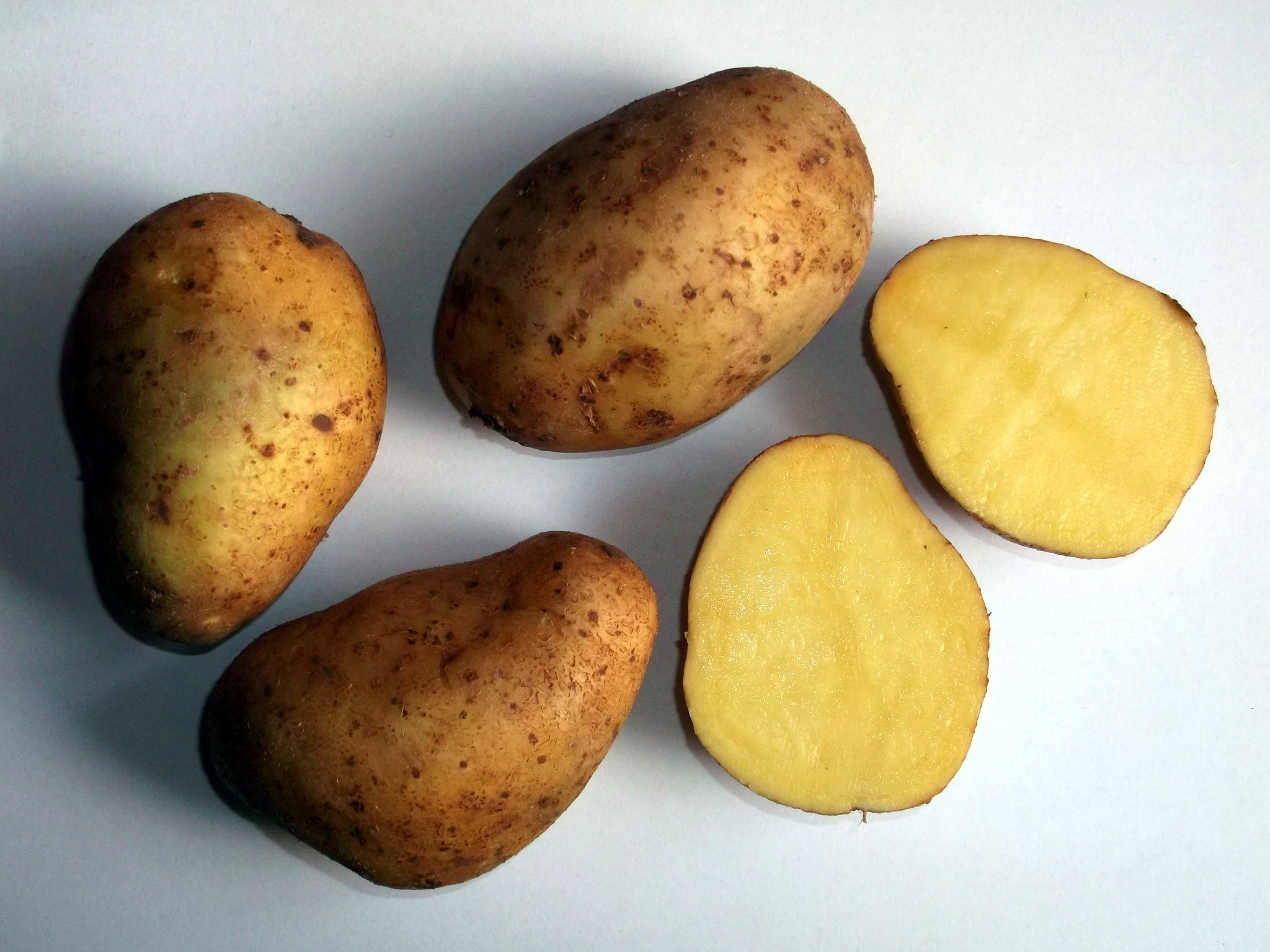 Potatoe variety Princess